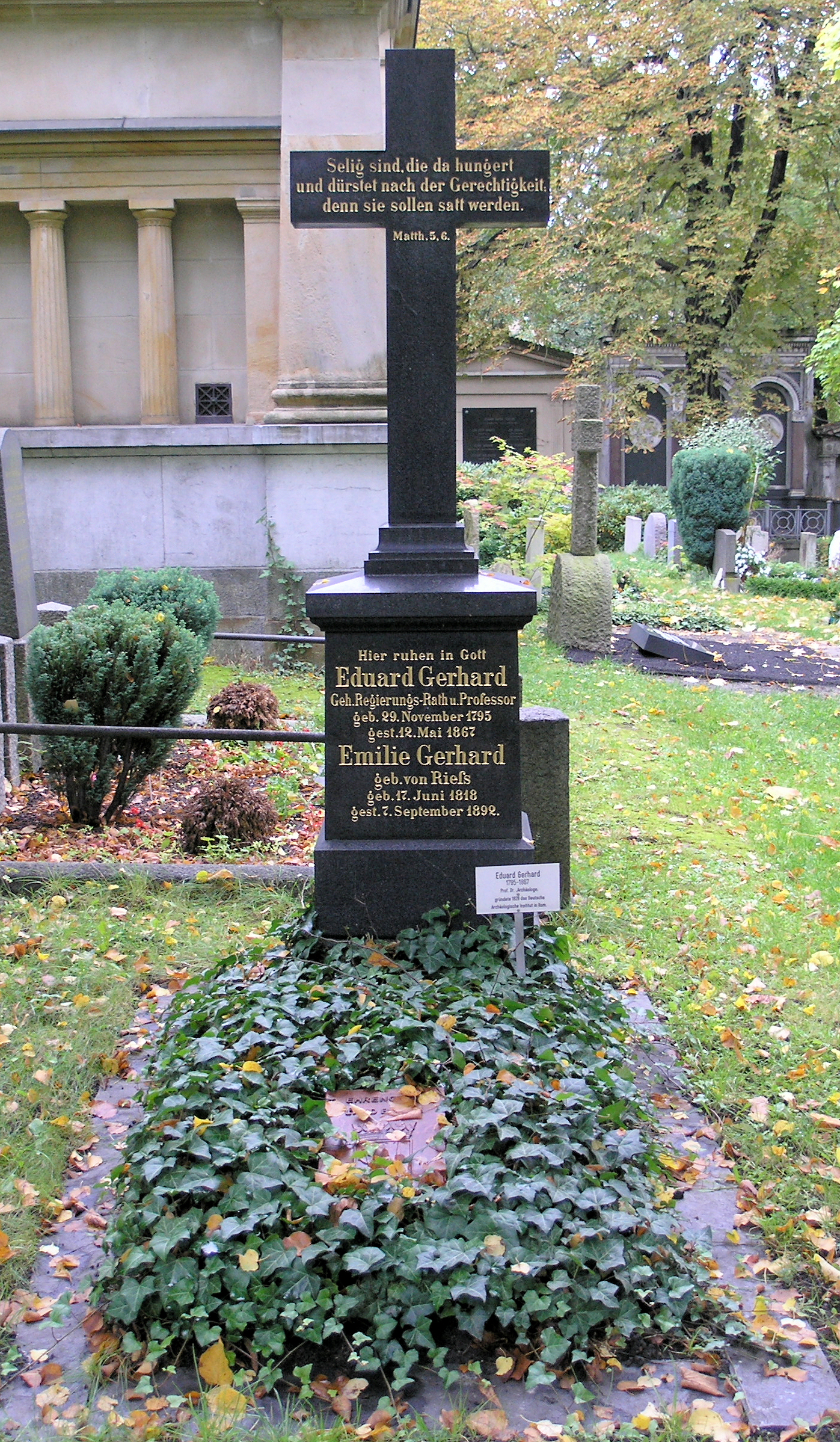 "Ehrengrab" (grave of honor), Eduard Gerhard, Großgörschenstraße 12, Berlin-Schöneberg, Germany Koordinate:52°29′28″N 13°22′2″E / 52.49111°N 13.36722°E